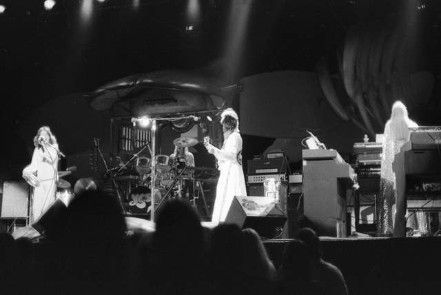 Yes at the USC Coliseum in Columbia, South Carolina, 1974.